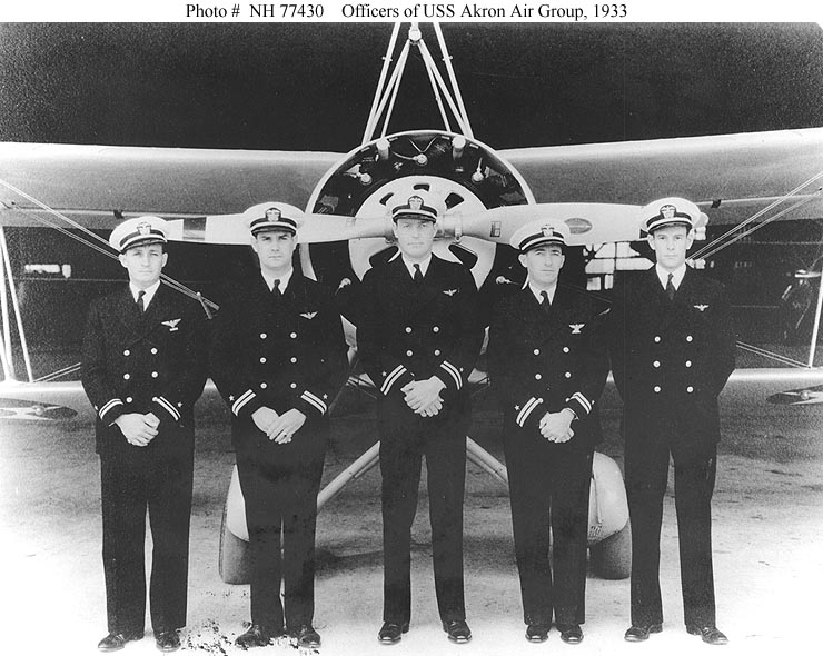 Pilots of the airship's Heavier-Than-Air unit pose in front of one of their Curtiss F9C-2 "Sparrowhawk" fighters, at Naval Air Station Lakehurst, New Jersey, in 1933 sometime after Akron's loss. Present are (left to right): Lieutenant (Junior Grade) Robert W. Lawson, Lieutenant Harold B. Miller, Lieutenant Frederick M. Trapnell, Lieutenant Howard L. Young, and Lieutenant (Junior Grade) Frederick N. Kivette.